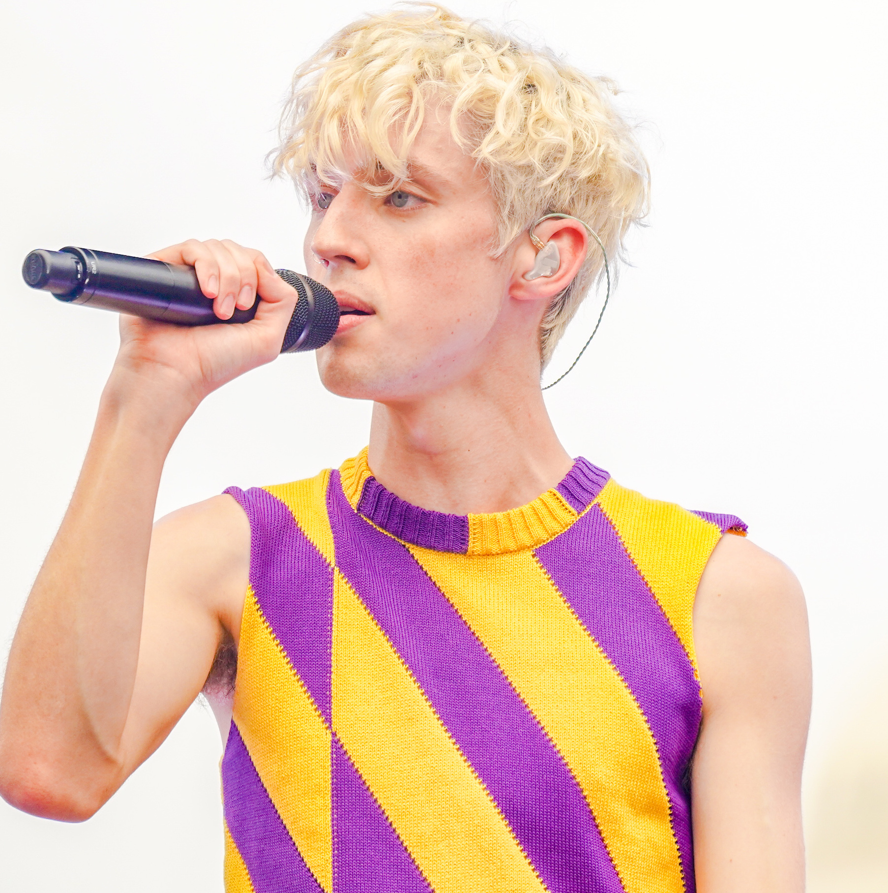 2018.06.10 Troye Sivan at Capital Pride w Sony A7III, Washington, DC USA 03514